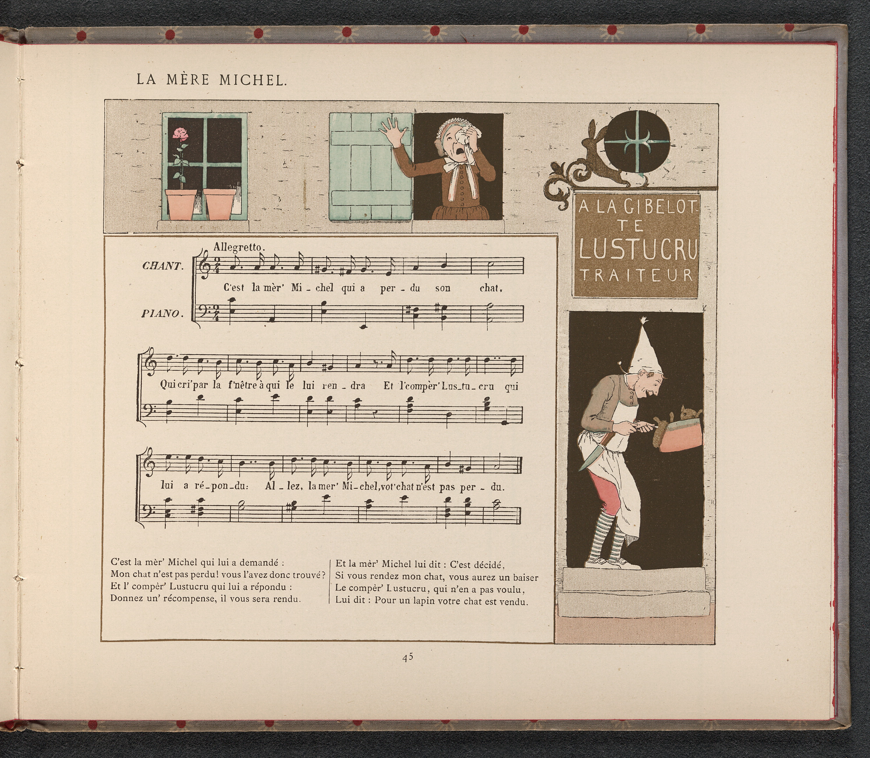 "La Mère Michel", sheet music with illustration from a French children's book Vieilles Chansons pour les Petits Enfants: Avec Accompagnements (Old Songs for Small Children with Accompaniments).